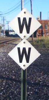 A Double whistle post located on the Grand Trunk Western Railroad in Battle Creek, Michigan. Free for use on any Wiki Trains Project